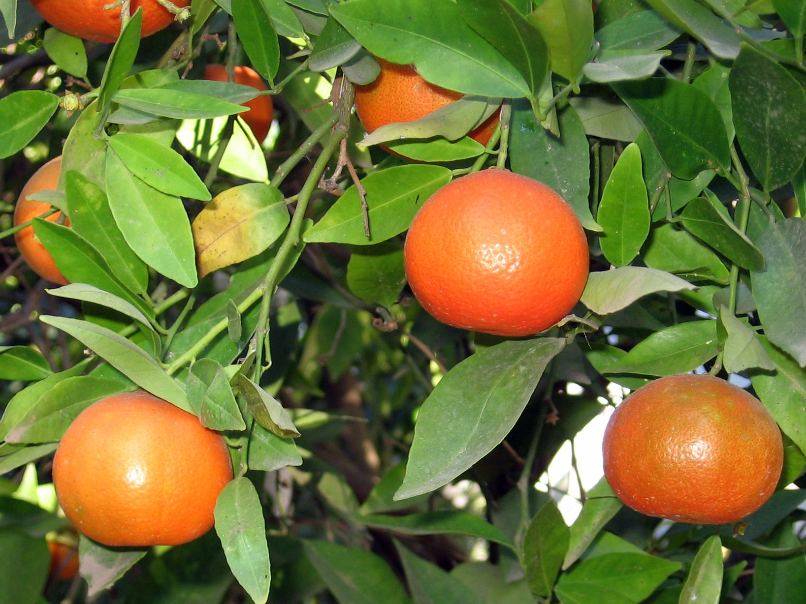 Citrus reticulata Clementine.